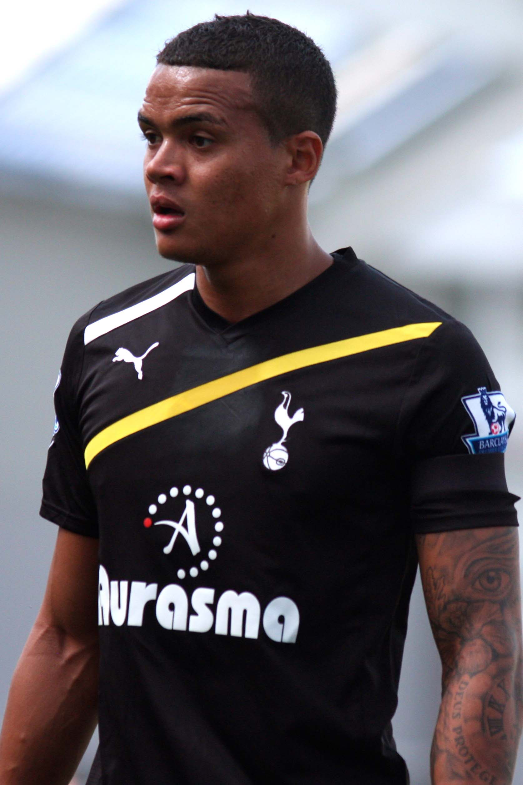 Jermaine Jenas of Tottenham Hotspur